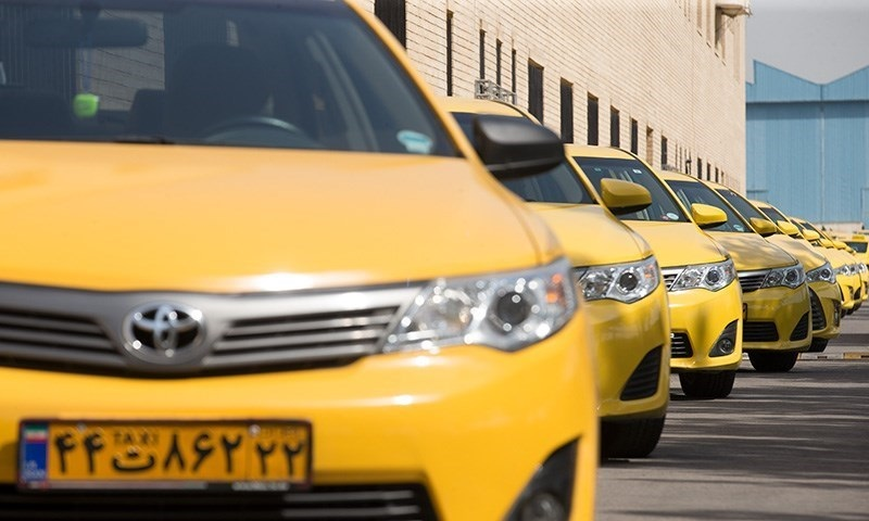 Tehran's Hybrid Taxi